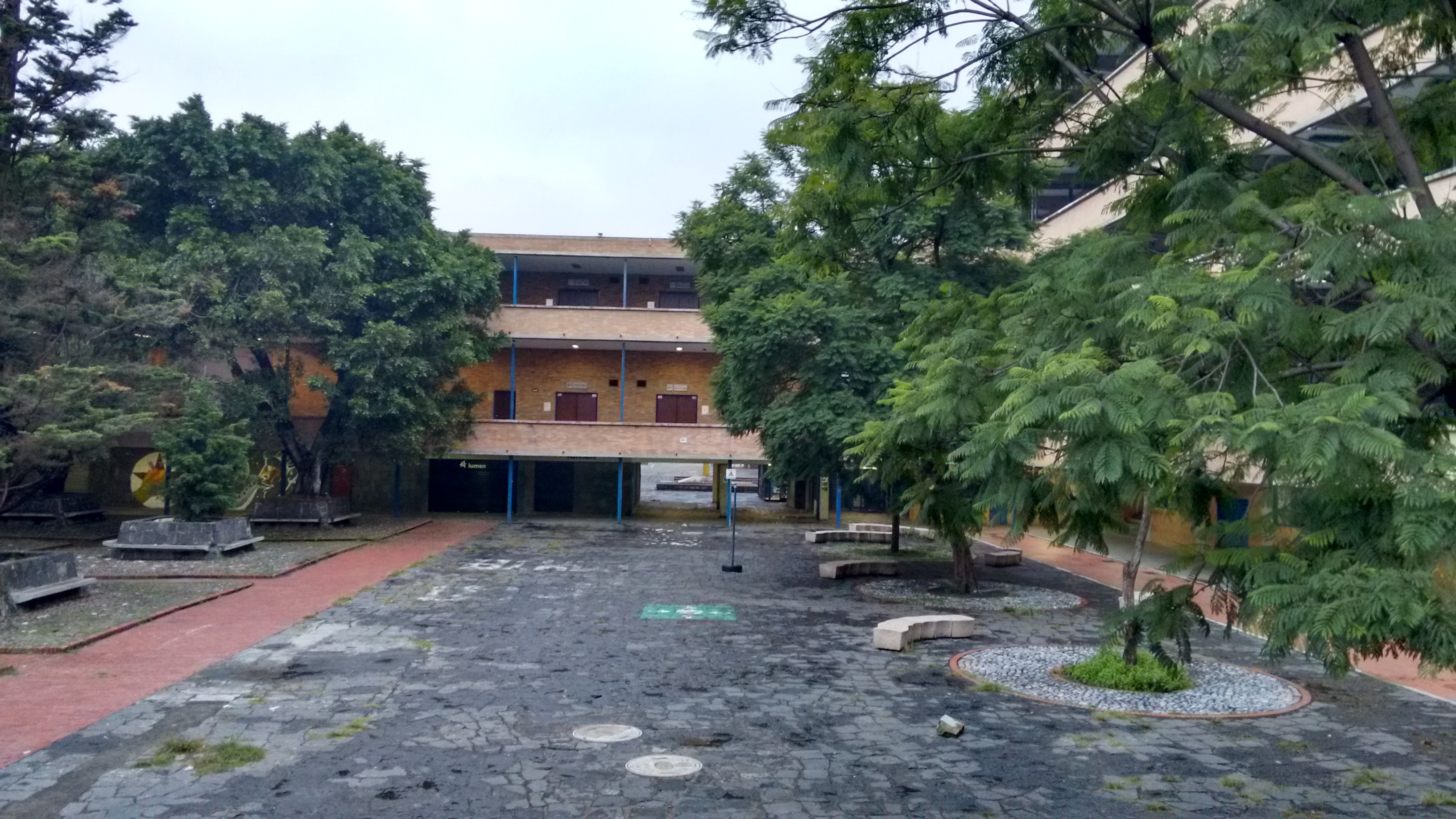 Patio at the School Of Architecture's main building facing new addition made in the seventies to increase space of demanding faculty.